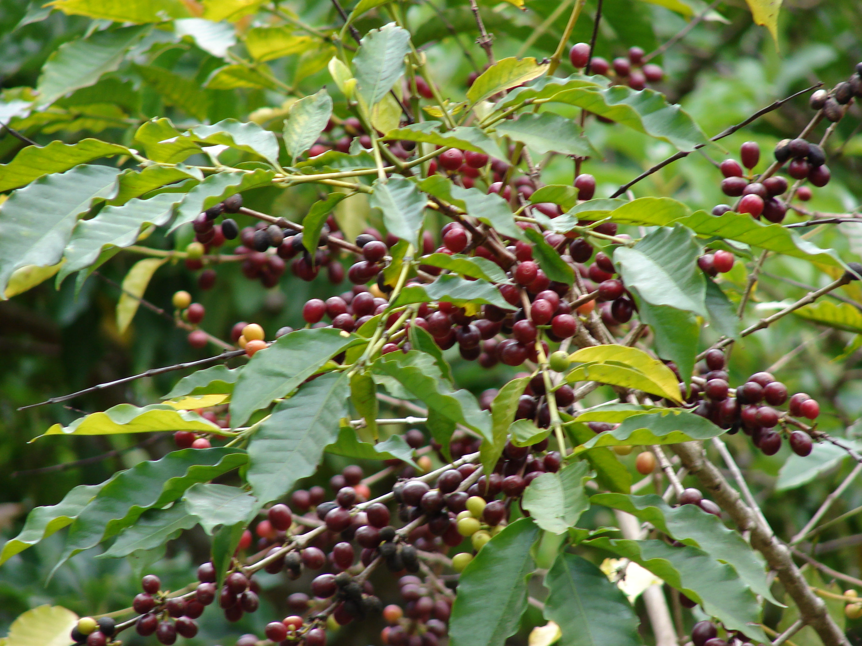 Coffea arabica (fruit and leaves). Location: Maui, Olinda